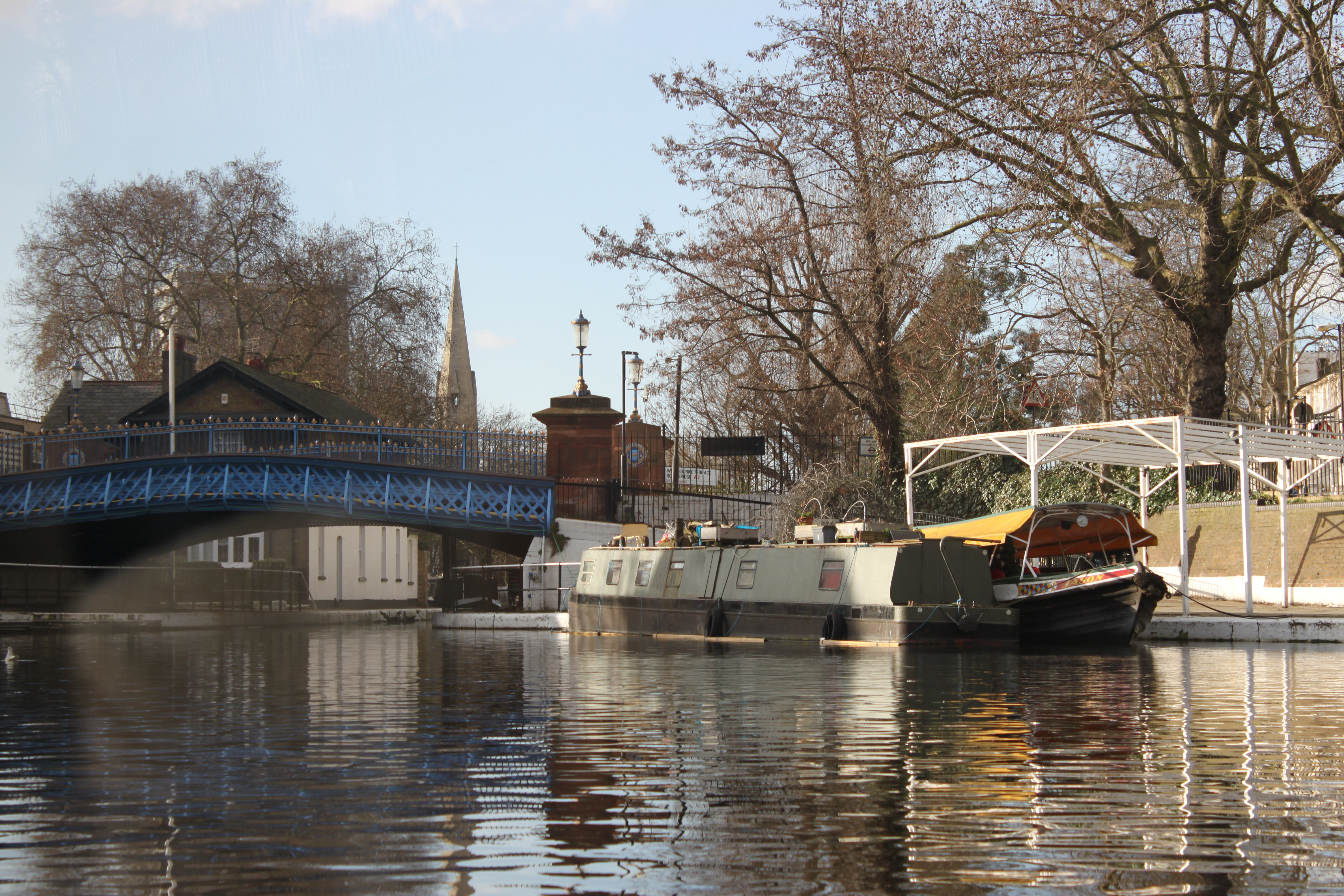 Regent's Canal, Little Venice, London